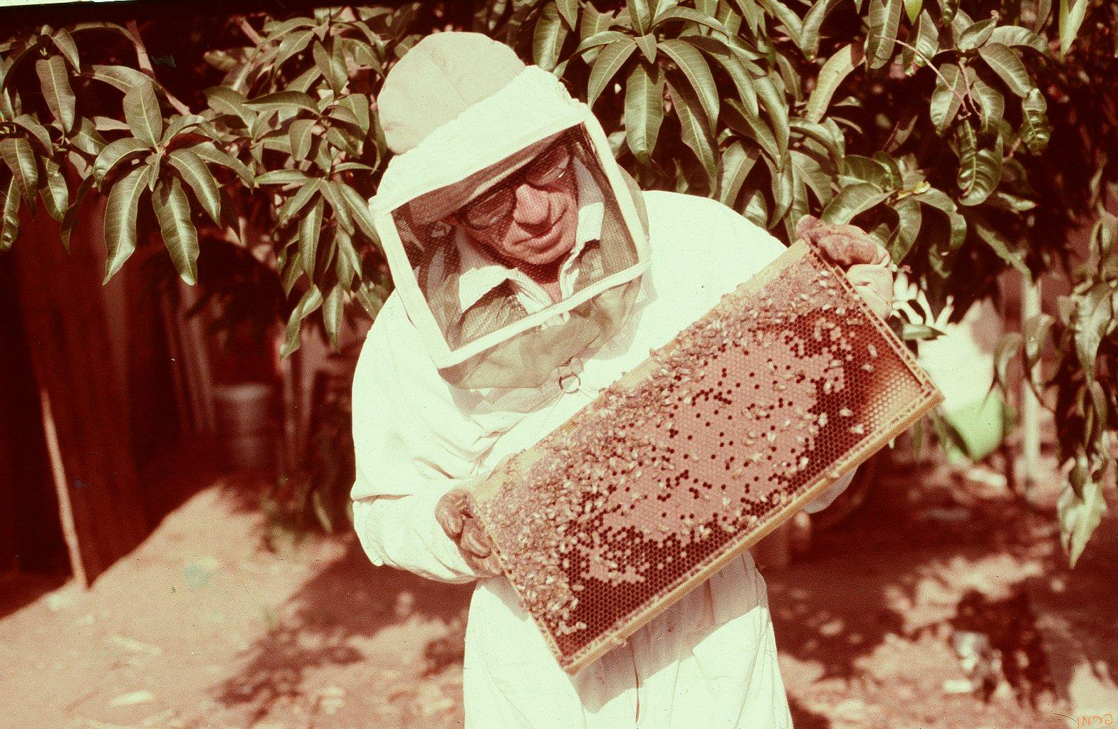 I Ferman with the plastic comb he has developed. יצחק פרמן